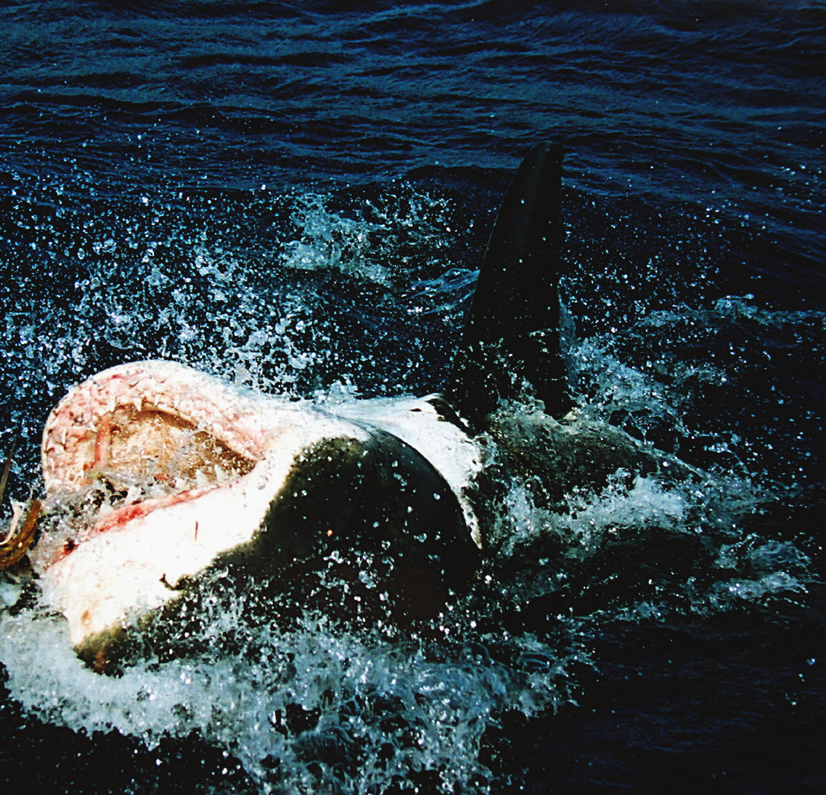 A great white shark at Isla Guadalupe, Mexico. The picture is a digital copy of my old film picture.